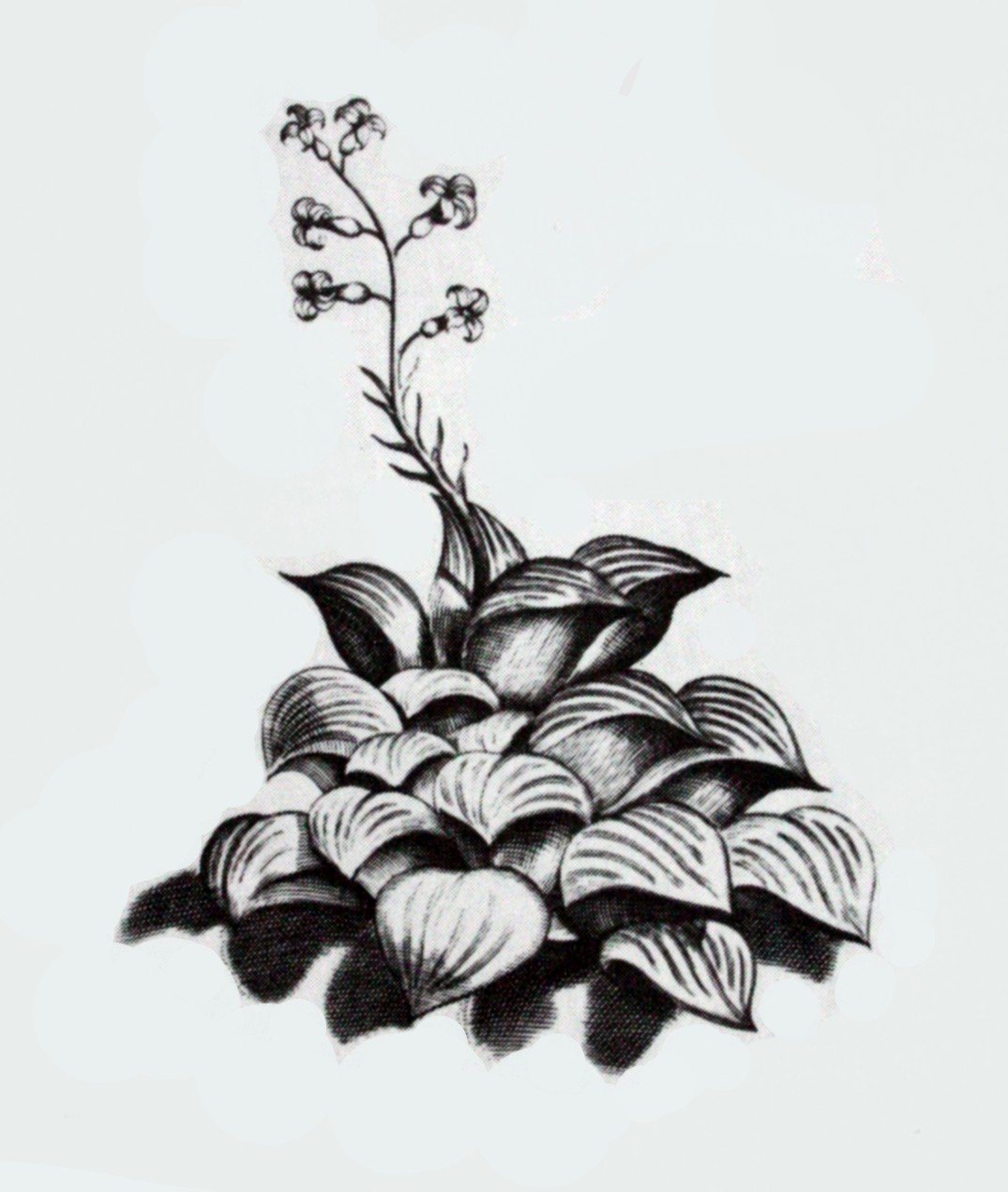 Haworthia from "Catalogus Plantarum Horti Pisani"